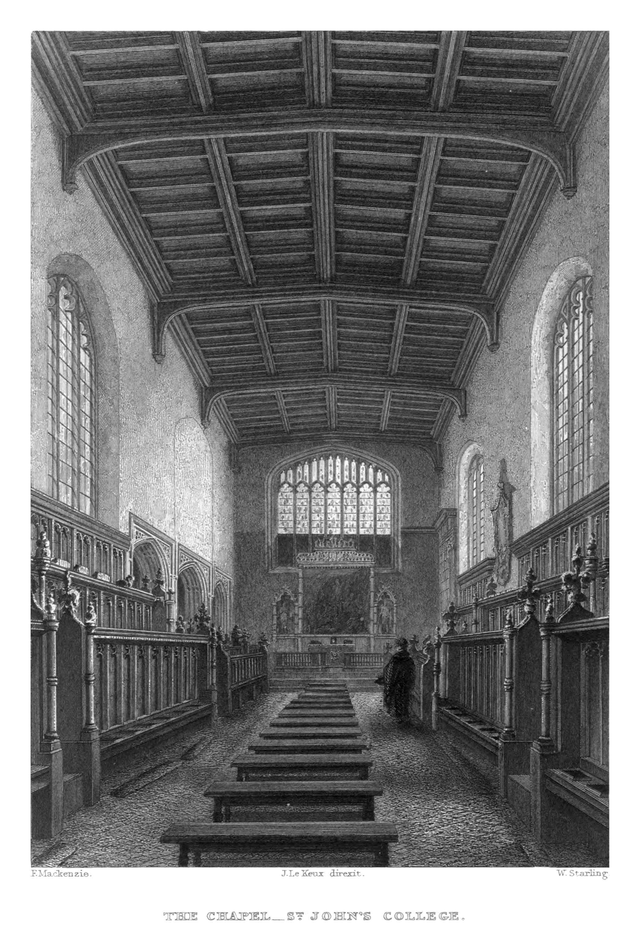 View of the interior of the old Chapel of St John's College, Cambridge (demolished and replaced 1866–9)